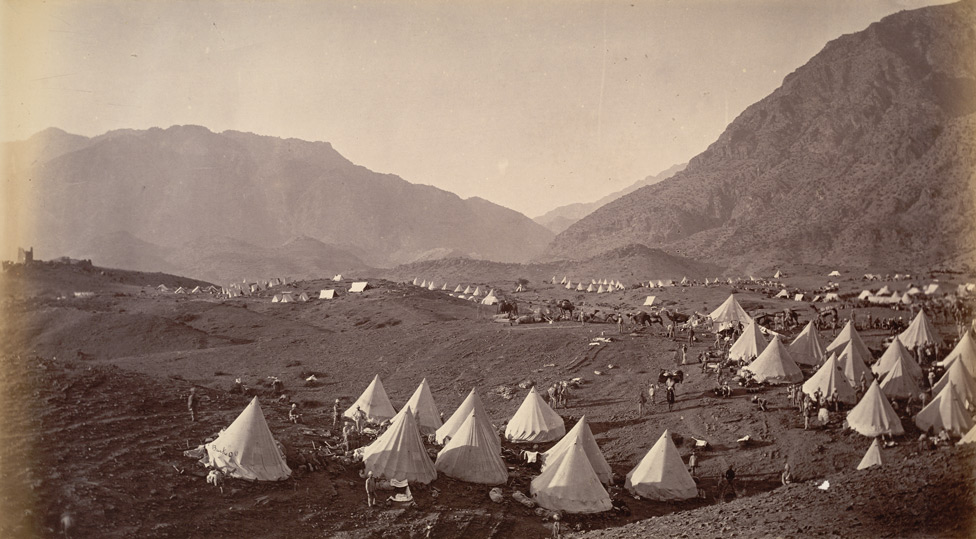 The aftermath of the Battle of Ali Masjid